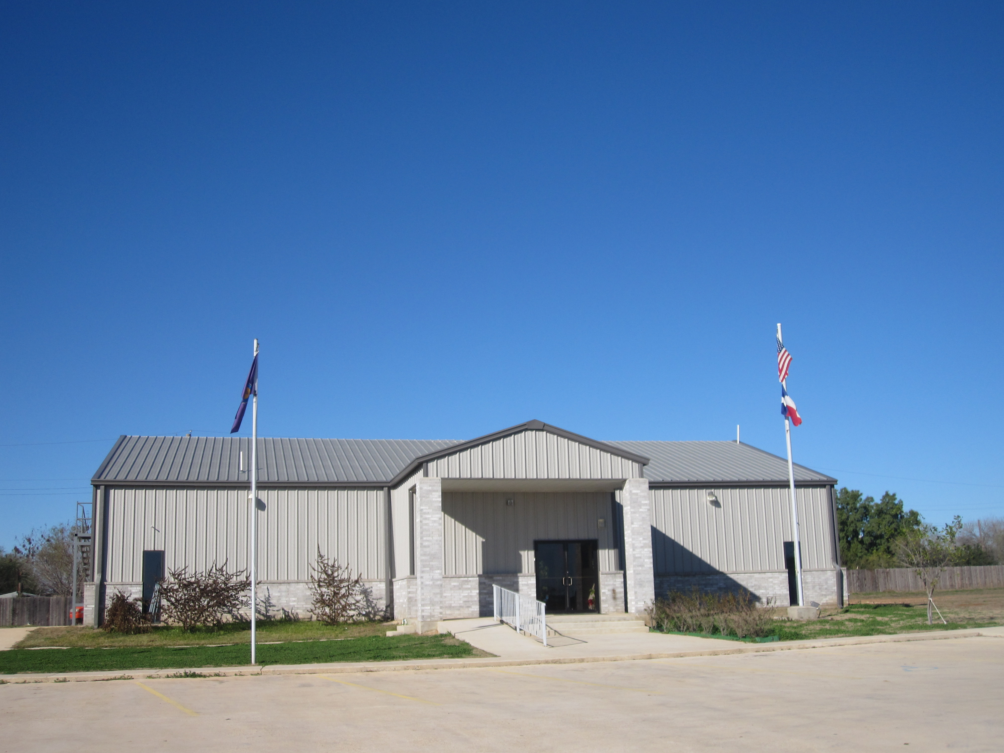 Prevailing Word Church in Coutlla, TX